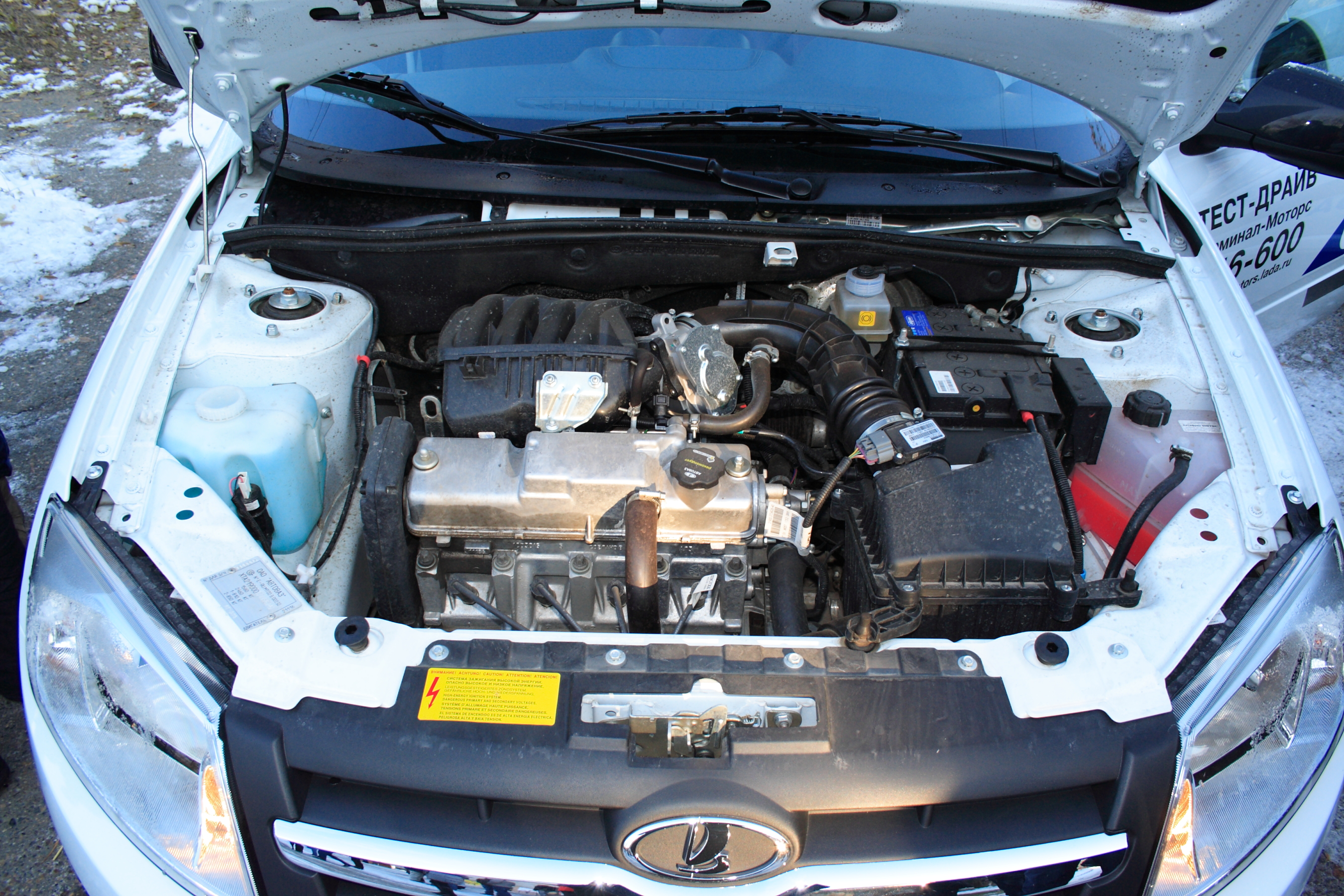 Engine of Lada Granta